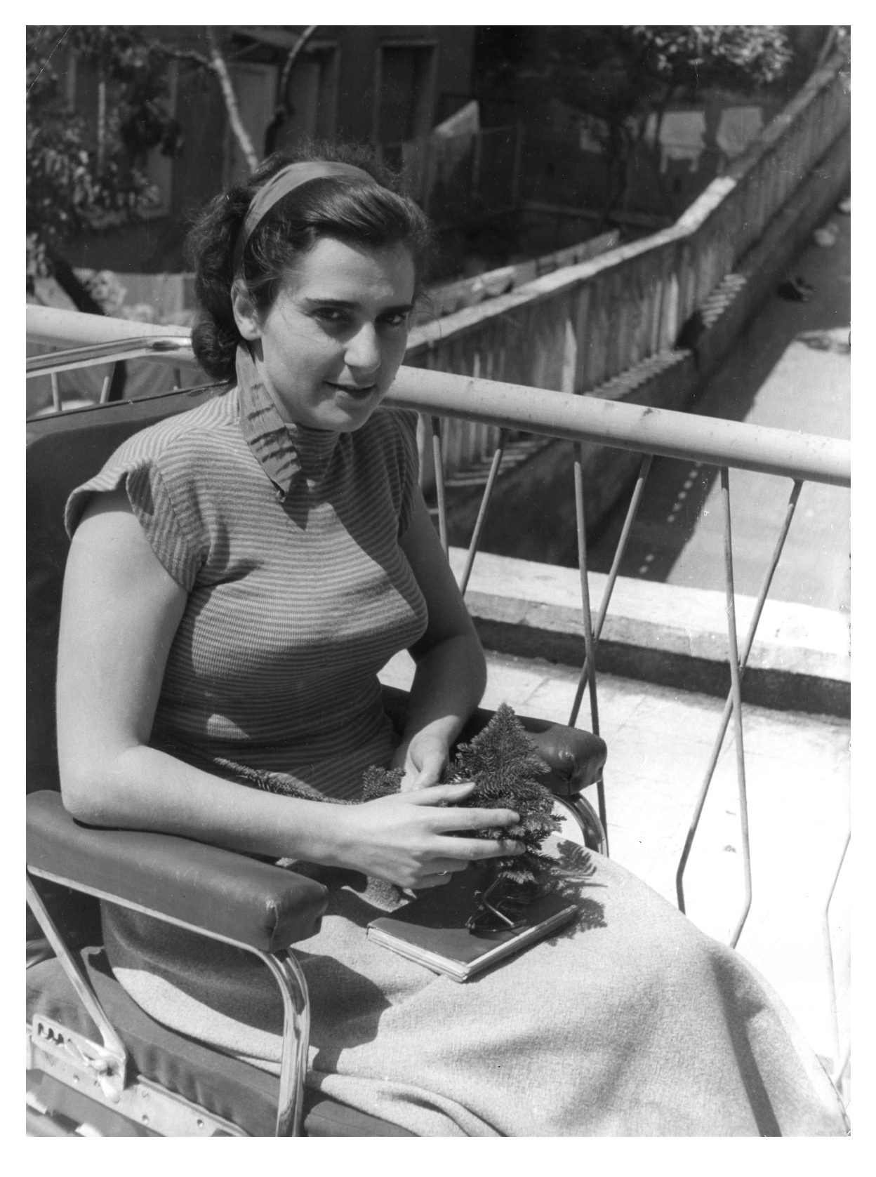 Luce d'Eramo in her youth